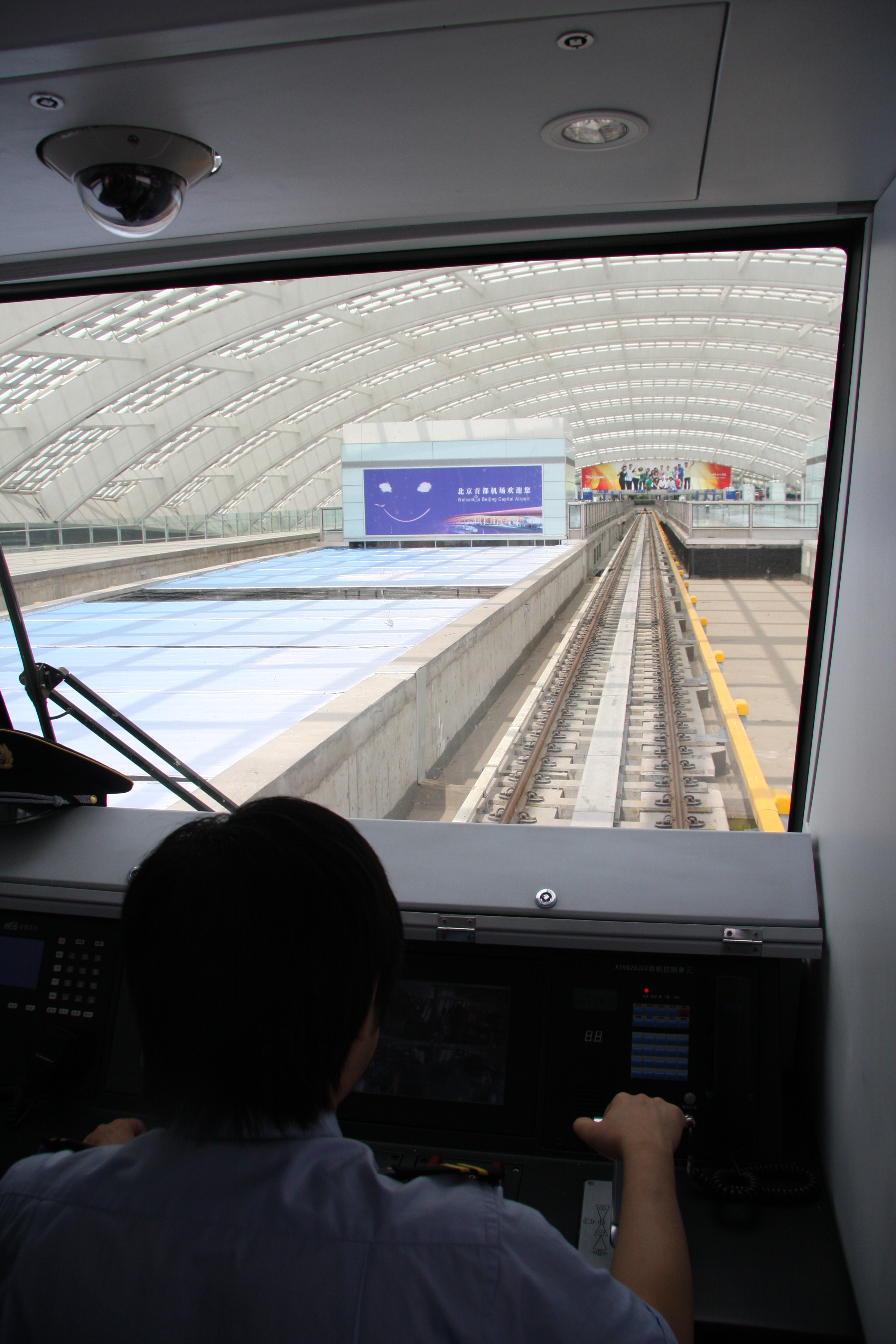 Airport Express Train arriving at Beijing International Airport